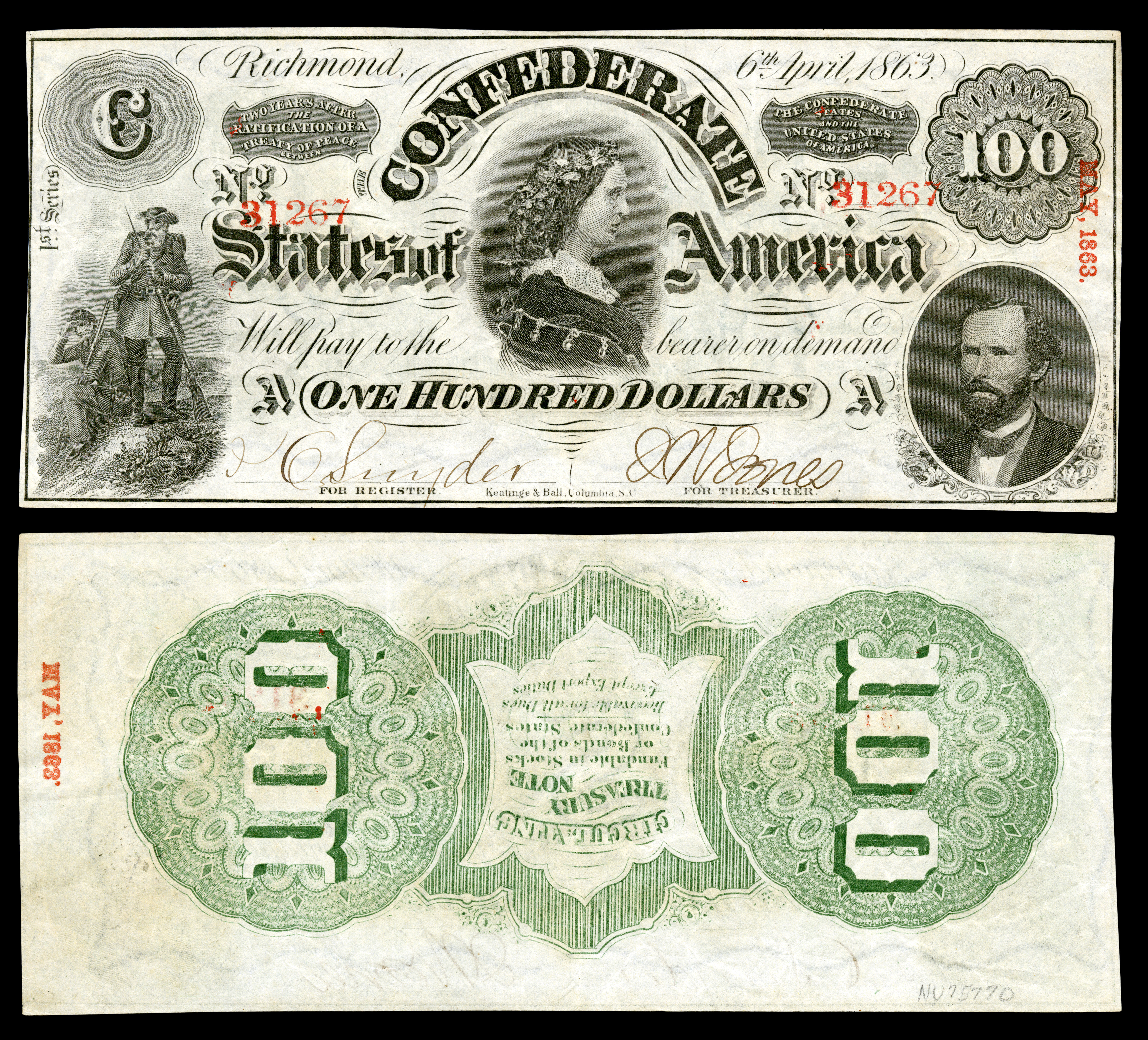 CSA-T56-$100-1863 (inverted back)